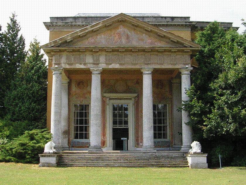 West Wycombe Park, Buckinghamshire, England. Photographed by uploader (August 2006) who releases all rights to public domain